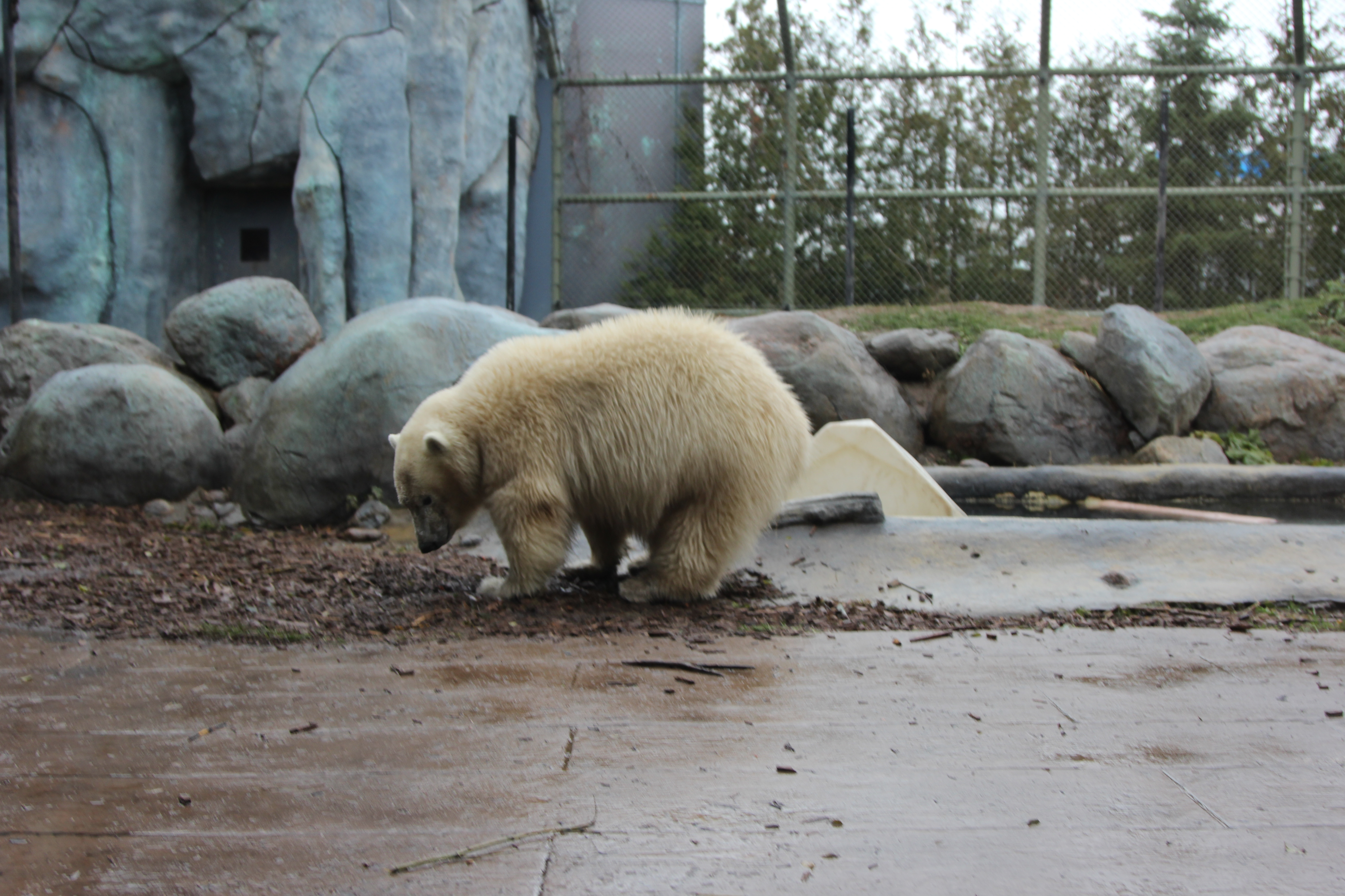 Polar bear cub at Toronto zoo